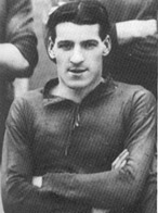 Image is from Liverpool teamphoto in 1910